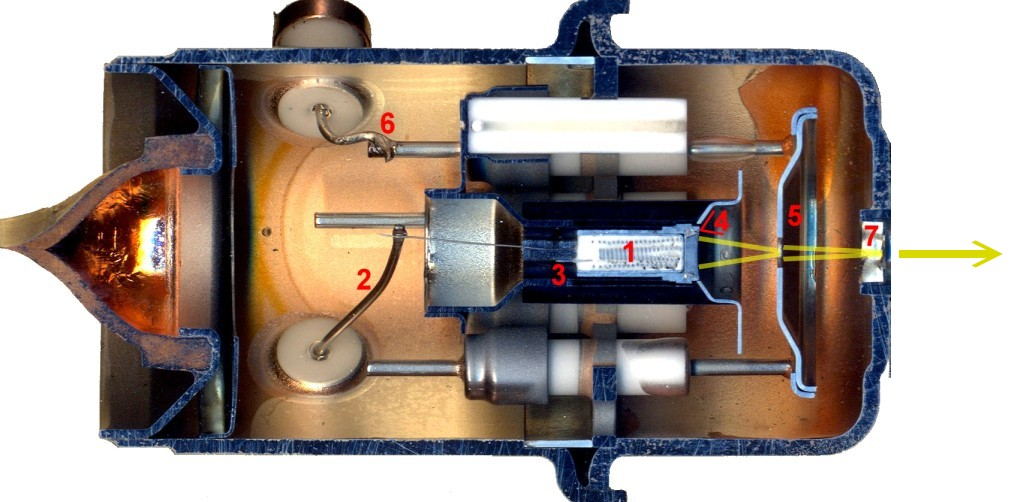 Electron gun (cross section), part of a Traveling wave tube. Heater and Wires to heater Wehnelt cylinder, pierced shield and pierced angle Anode HV contact Electron beam exit